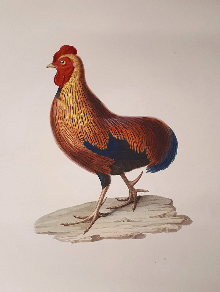 An 1806 lithograph of tailless Ceylon Junglefowl.